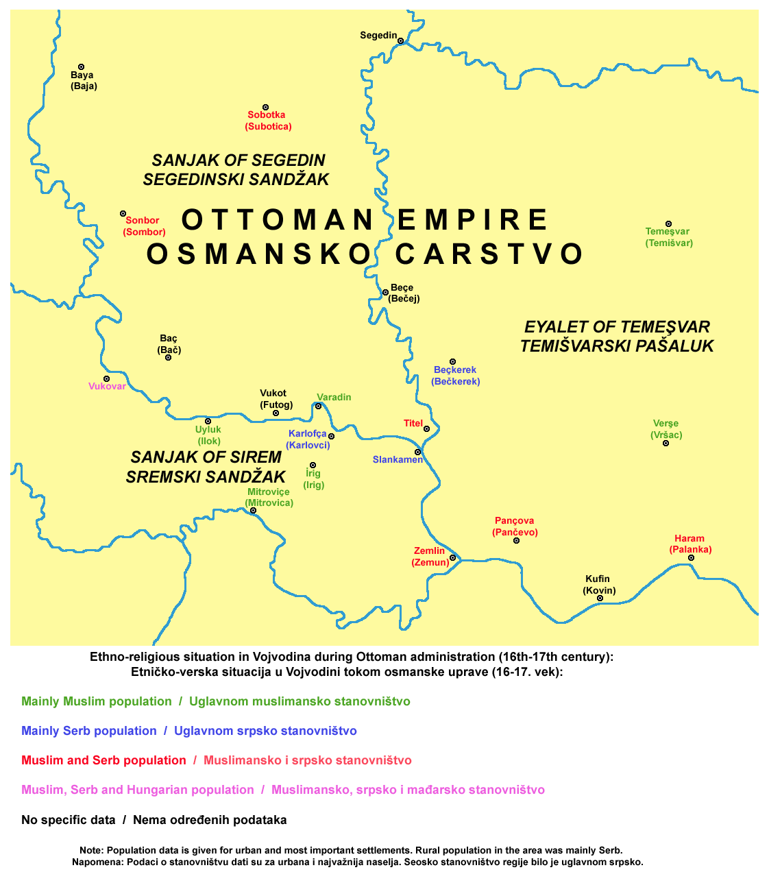 Ethno-religious situation in Vojvodina during Ottoman administration (16th-17th century)